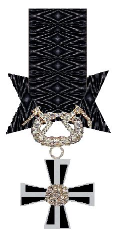 The Mourning Cross of the Order of the Cross of Liberty (Finland): this decoration is issued to the closest female relative of a fallen Finnish soldier